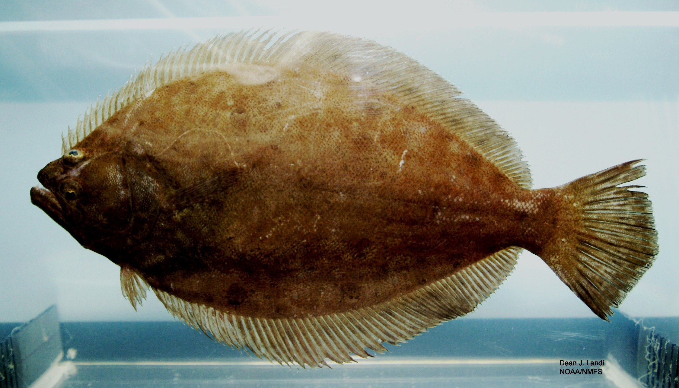 Broad flounder ( Paralichthys squamilentus ). Gulf of Mexico.